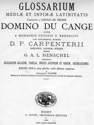 Title page of latest edition (Niort, 1883) of Charles Du Cange, Glossarium mediae et infimae Latinitatis (1678)